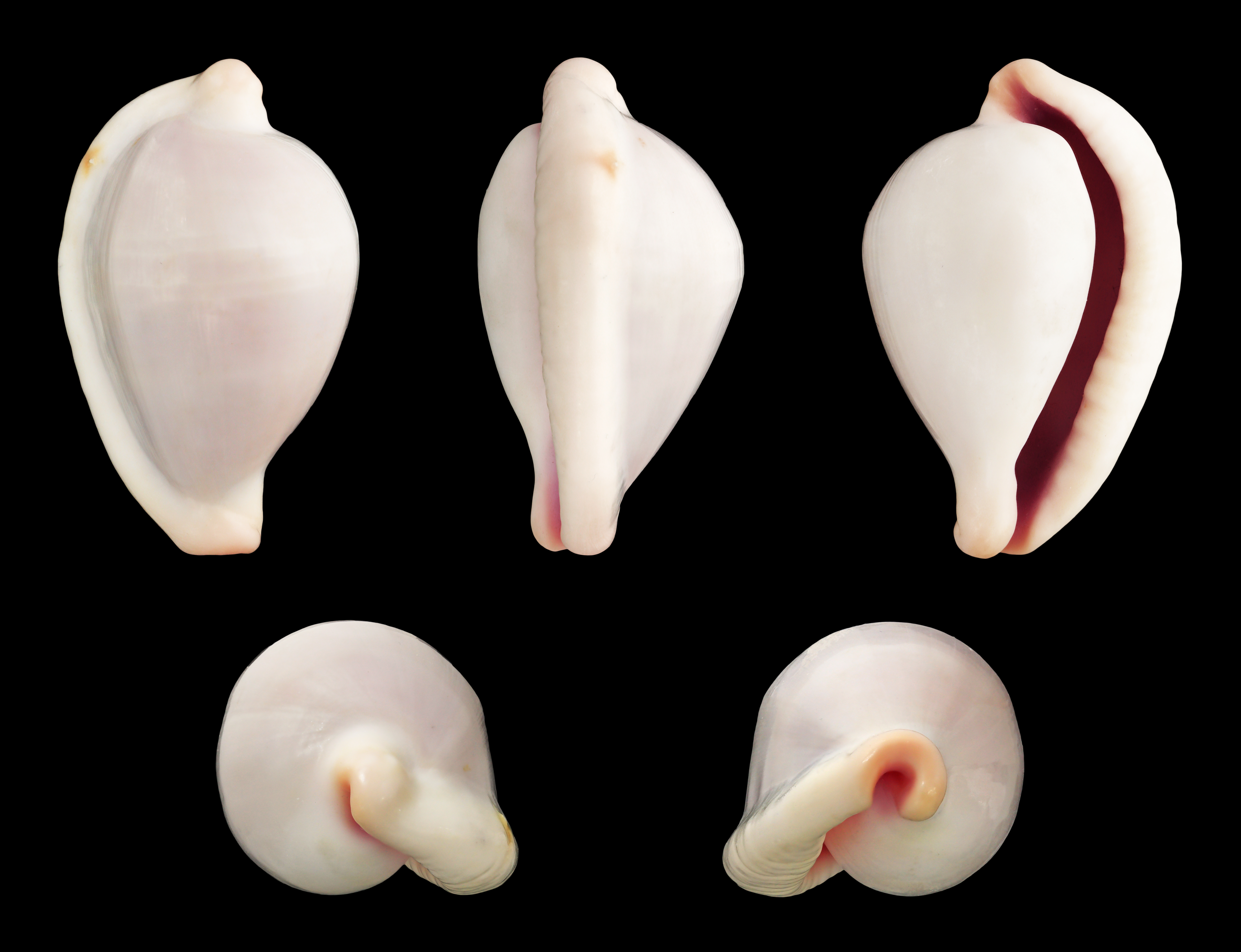 Pink-mouth Egg Snail; Length 4.4 cm; Originating from Zamboanga, Philippines; Shell of own collection, therefore not geocoded. Dorsal, lateral (right side), ventral, back, and front view.